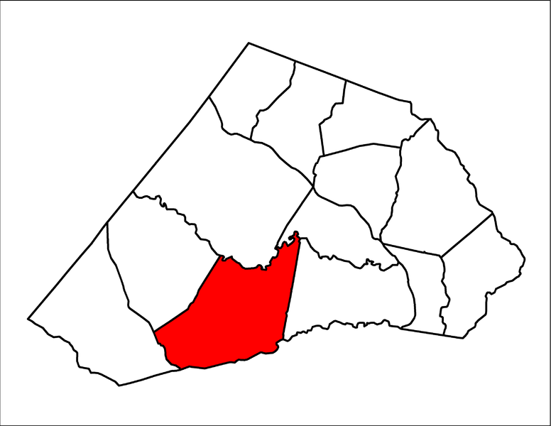 The image represents the location of the Anderson Creek Township in Harnett County, the state of North Carolina, USA.